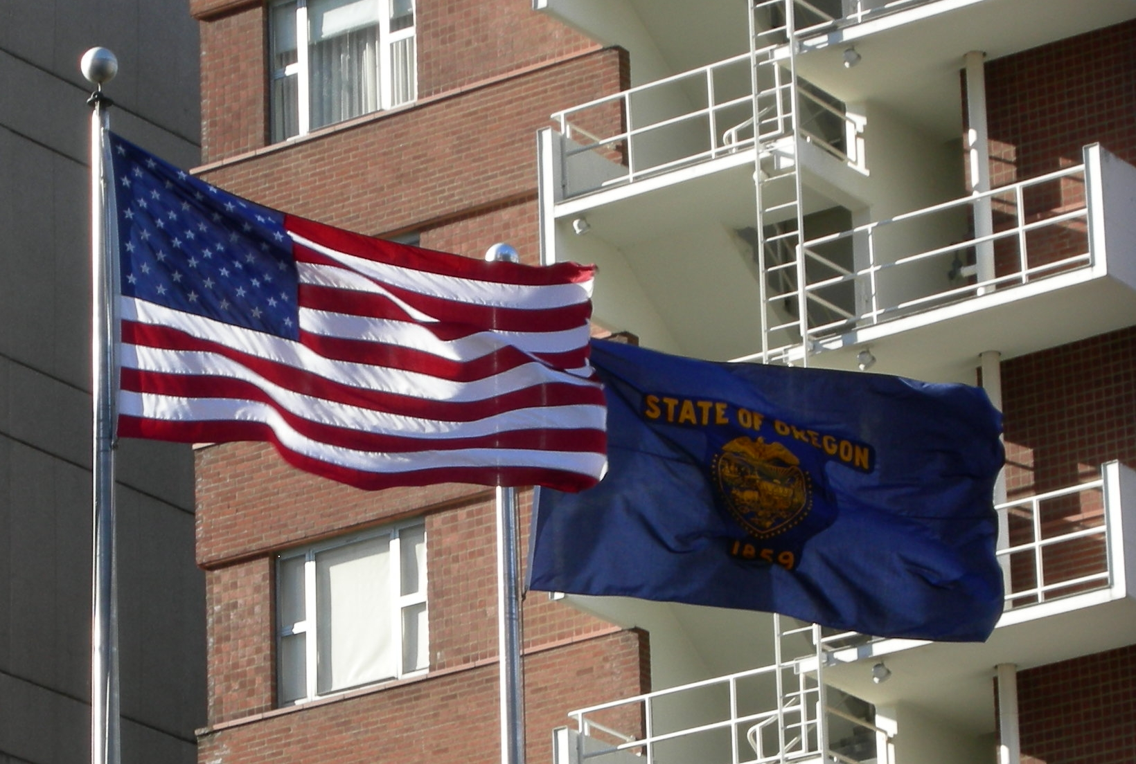 The flags of the United States of America and the State of Oregon, flying side-by-side in Portland, Oregon